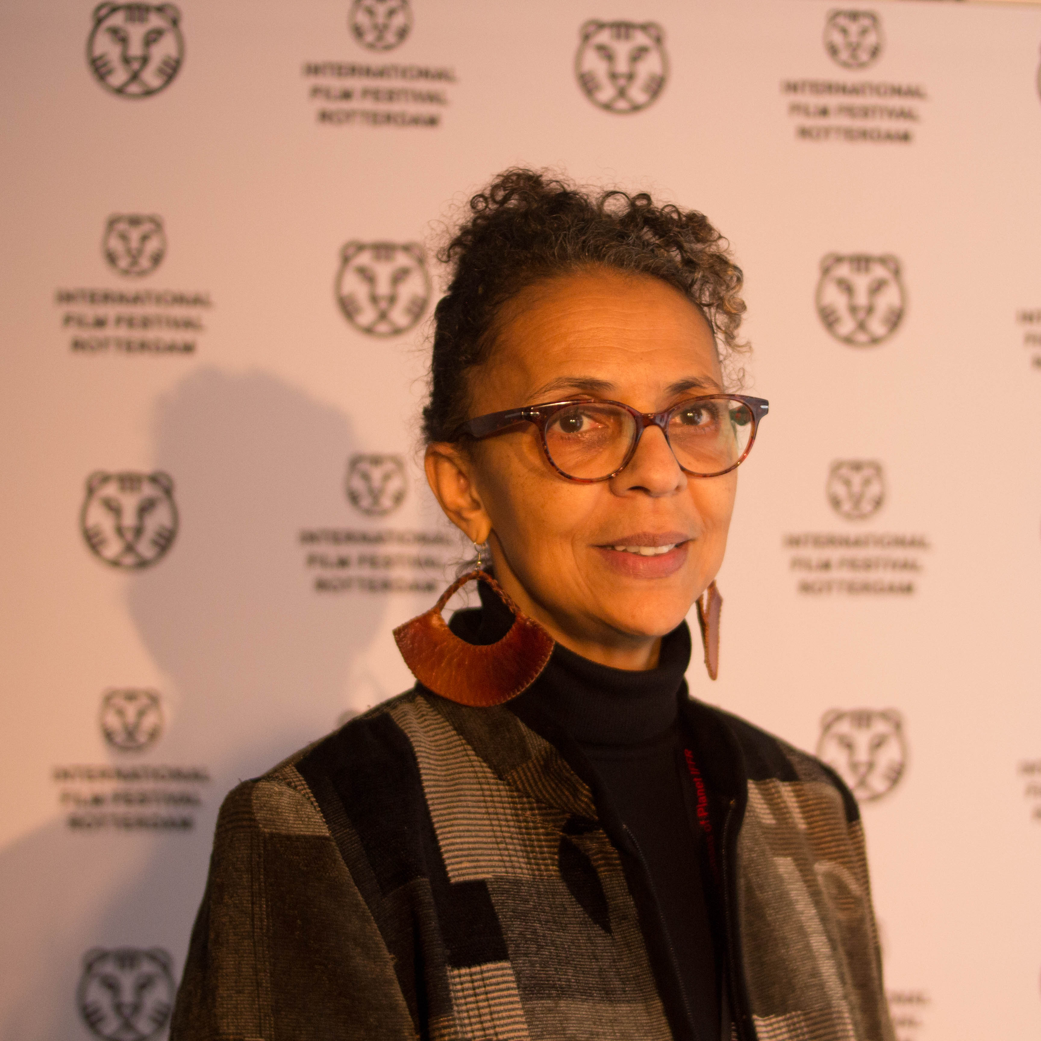 Shirikiana Aina at the International Film Festival Rotterdam 2018 to promote her documentary Footprints of Pan Africanism